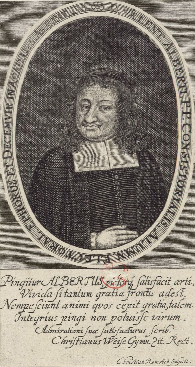 Valentin Alberti (1637-1697) Lutheran theologian from Germany